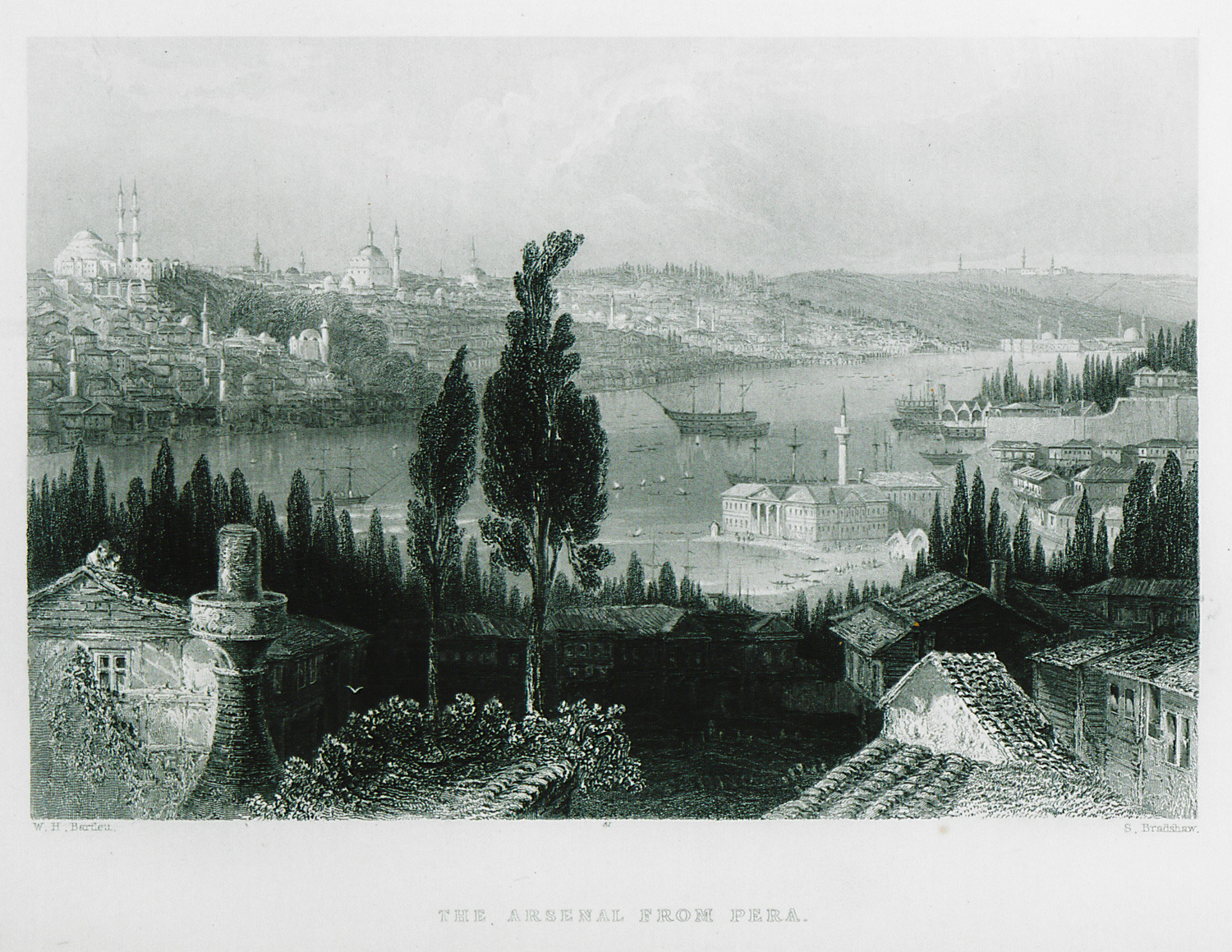 Illustration from The Beauties of the Bosphorus, 1838, by Julia Pardoe (author) and W.H. Bartlett (illustrator).